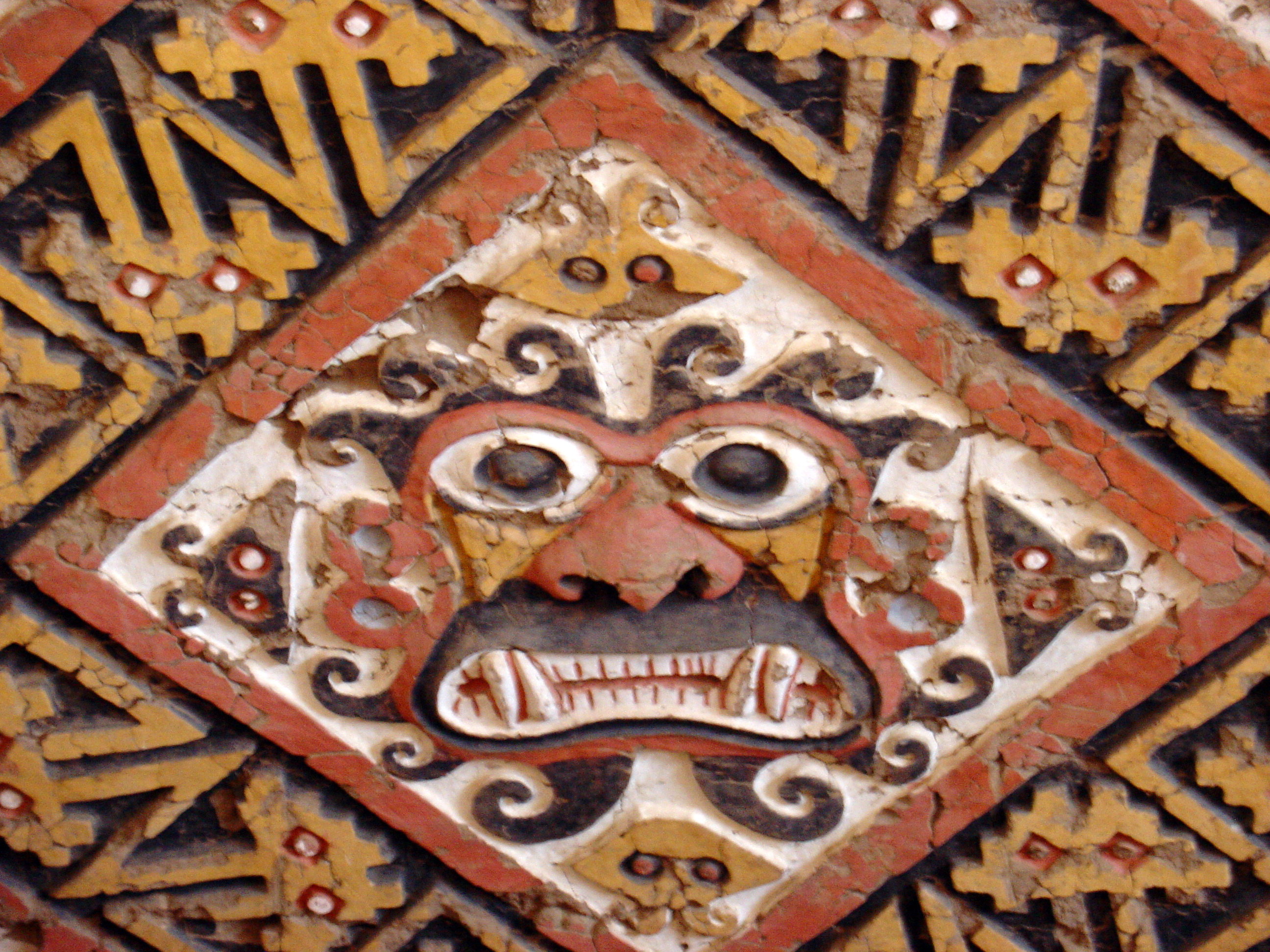 Paint at Huaca de la Luna, Trujillo, Peru